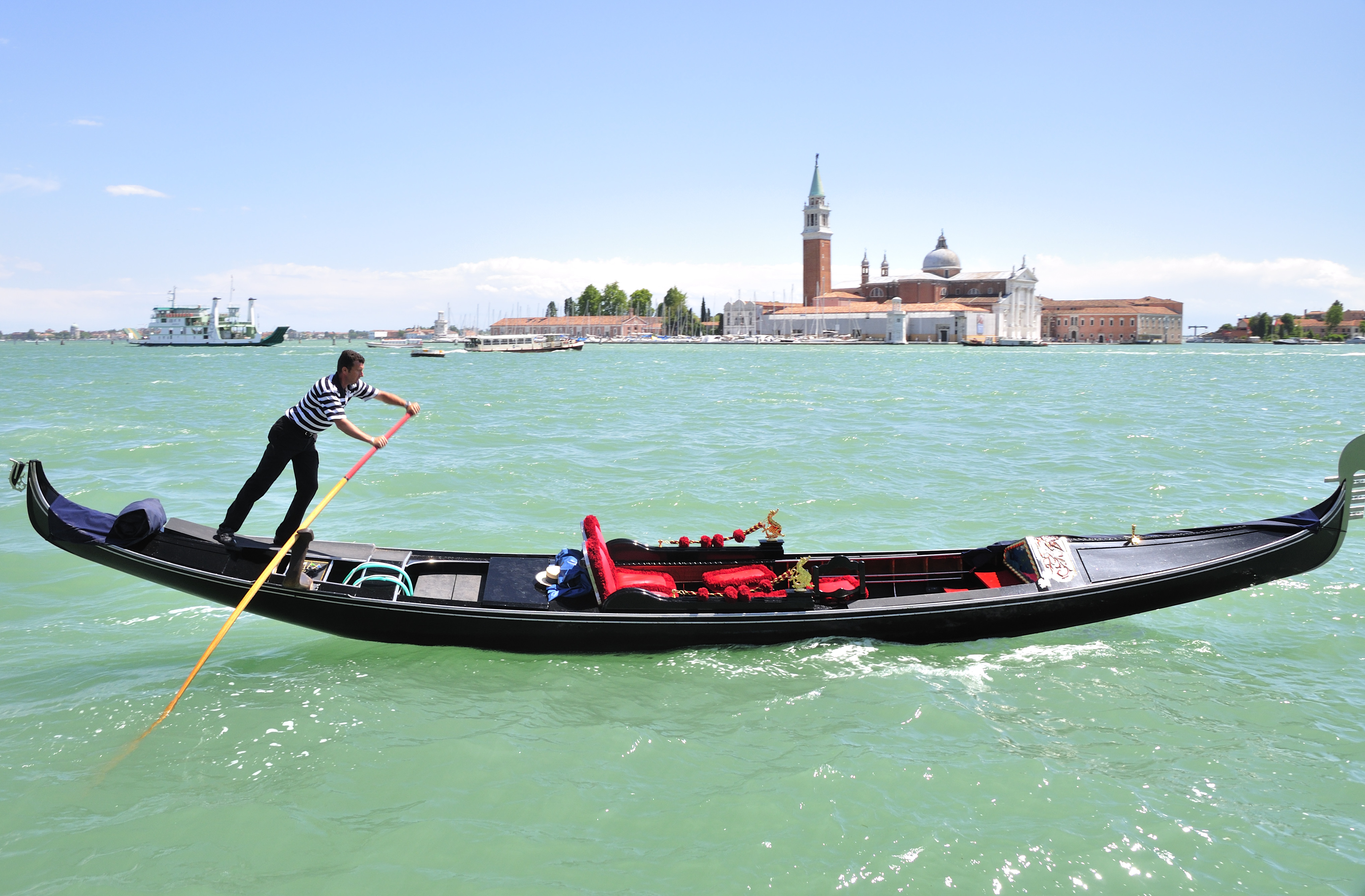 The water streets of Venice are canals which are navigated by gondolas and other small boats. During daylight hours the canals, bridges, and streets of Venice are full of tourists eager to experience the romance of this great travel destination. As night engulfs the town, tourists enjoy some fine dining at one of the many restaurants, leaving the waterways and streets quiet. The gondola is a traditional, flat-bottomed Venetian rowing boat, well suited to the conditions of the Venetian Lagoon. For centuries gondolas were once the chief means of transportation and most common watercraft within Venice. In modern times the iconic boats still have a role in public transport in the city, serving as ferries over the Grand Canal. They are also used in special regattas (rowing races) held amongst gondoliers. Their main role, however, is to carry tourists on rides throughout the canals. Gondolas are hand made using 8 different types of wood (fir, oak, cherry, walnut, elm, mahogany, larch and lime) and are composed of 280 pieces. The oars are made of beech wood. The left side of the gondola is longer than the right side. This asymmetry causes the gondola to resist the tendency to turn toward the left at the forward stroke.